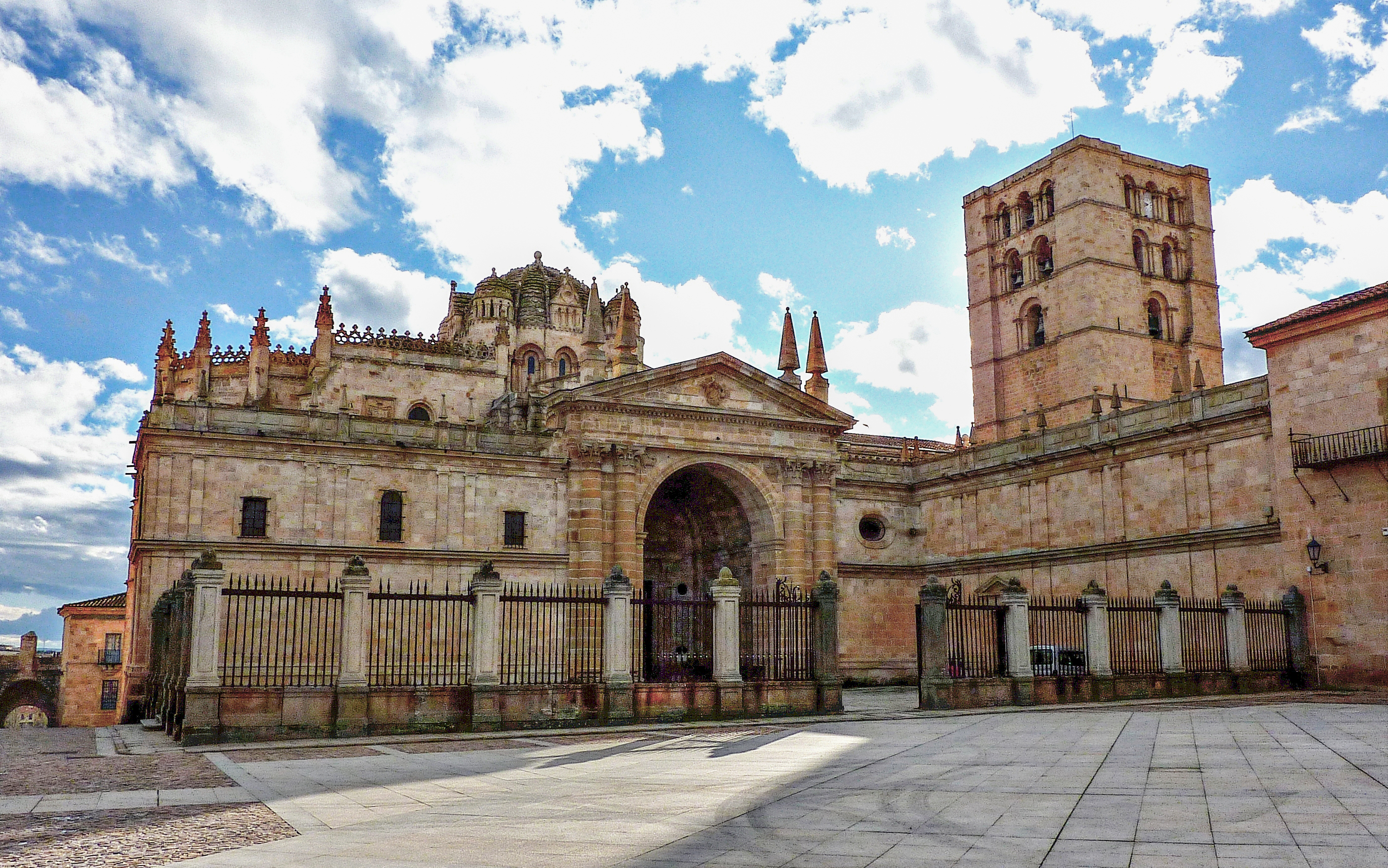 Main façade of the Cathedral of Zamora (Spain). Cathedral of Zamora Native nameCatedral del Salvador de ZamoraLocationZamora, (Spain)Coordinates41° 29′ 56.33″ N, 5° 45′ 16.7″ W Established12th-centuryWeb page control : Q2942864 VIAF: 124365334 LCCN: n82222244 BIC: RI-51-0000060 BNE: XX96671 JCyL: 17286 WorldCat institution QS:P195,Q2942864